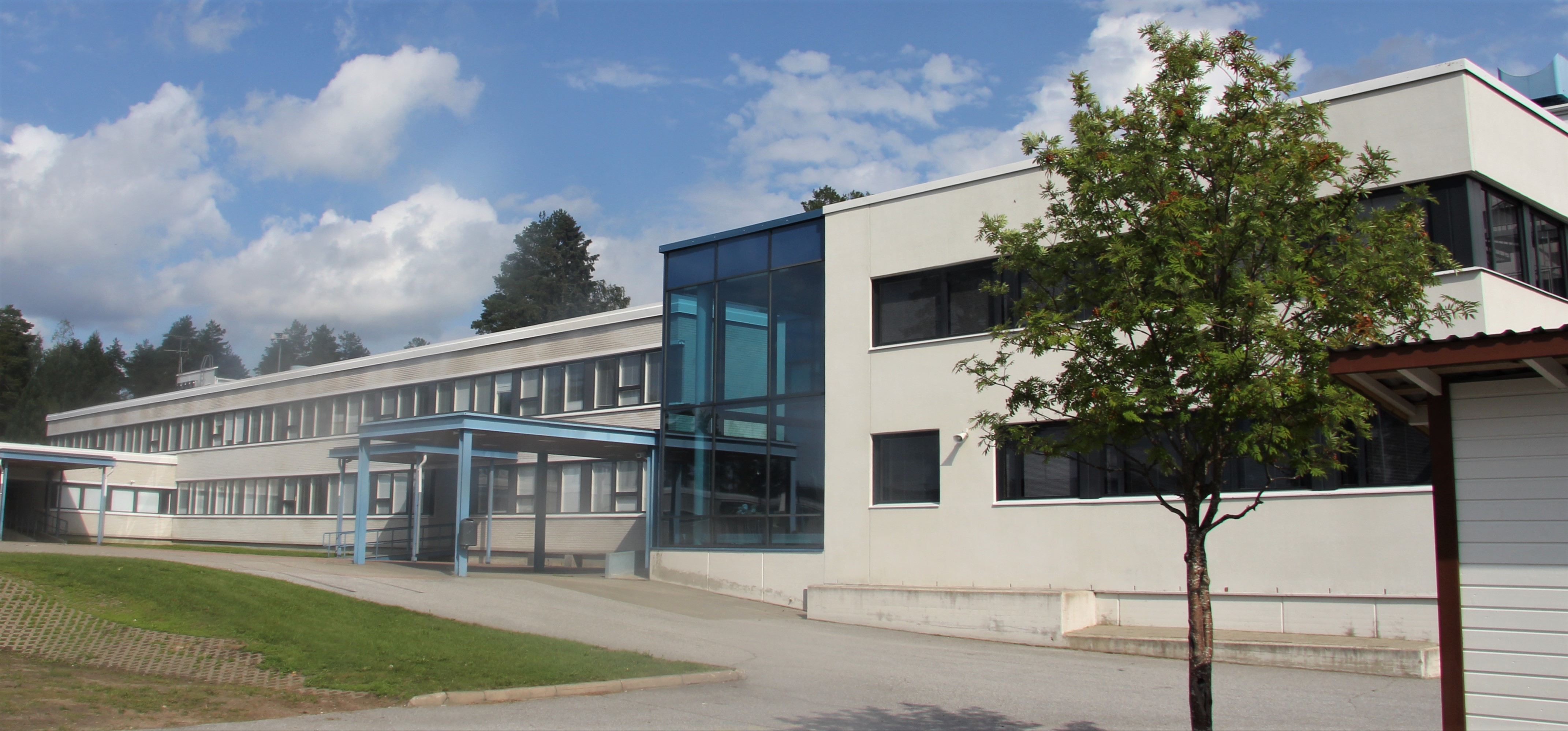 Sonkajärvi School Center in Sonkajärvi, Finland.